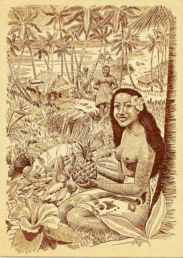 Repository: California Historical Society Digital object ID: CHS2013.1430 [a] Call number: MENU COL Collection: California menu collection Date: undated Preferred citation: Menu, Trader Vic, Oakland [cover], California menu collection, courtesy, California Historical Society, CHS2013.1430 [a].jpg. Online finding aid